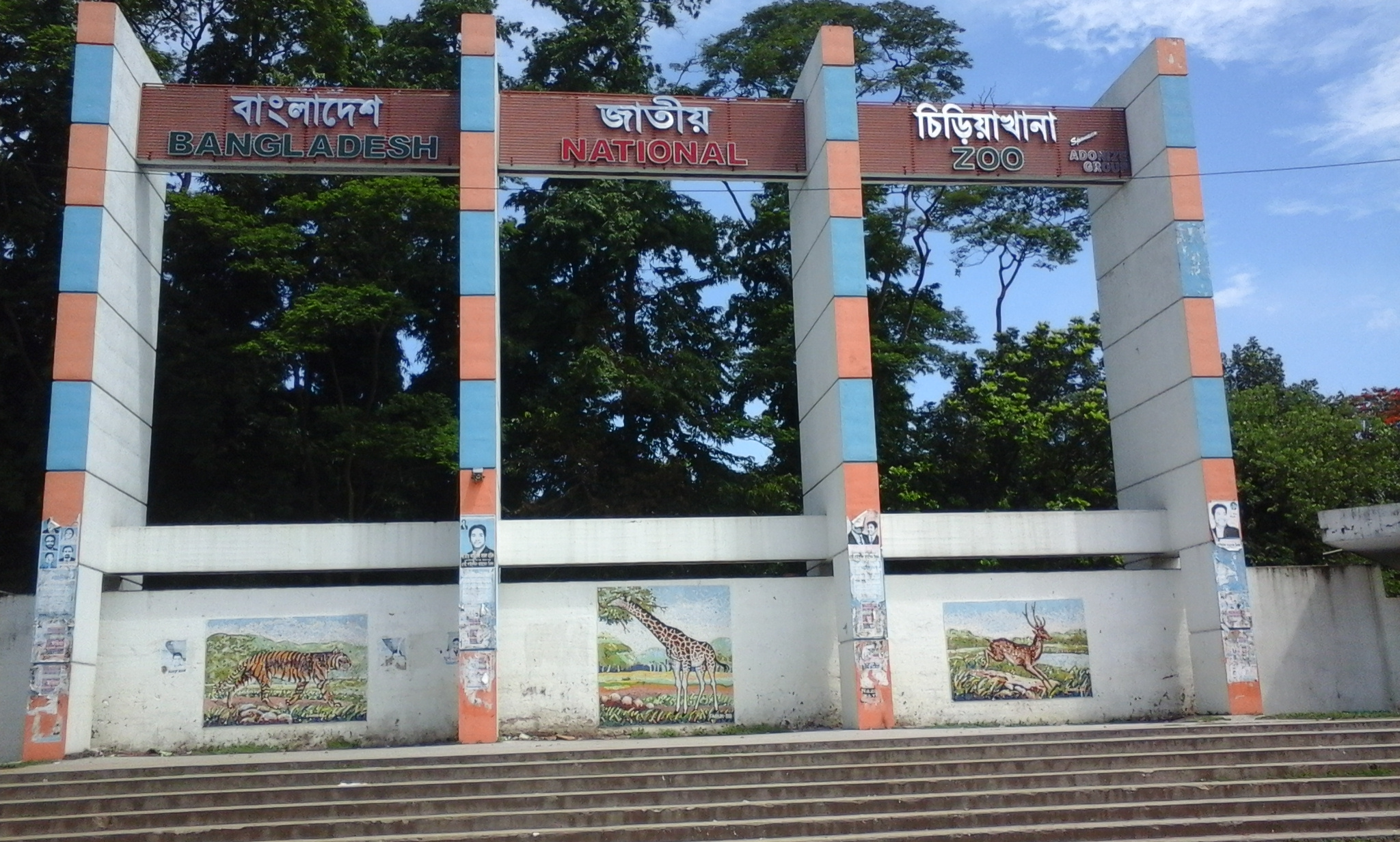 Bangladesh national zoo gate